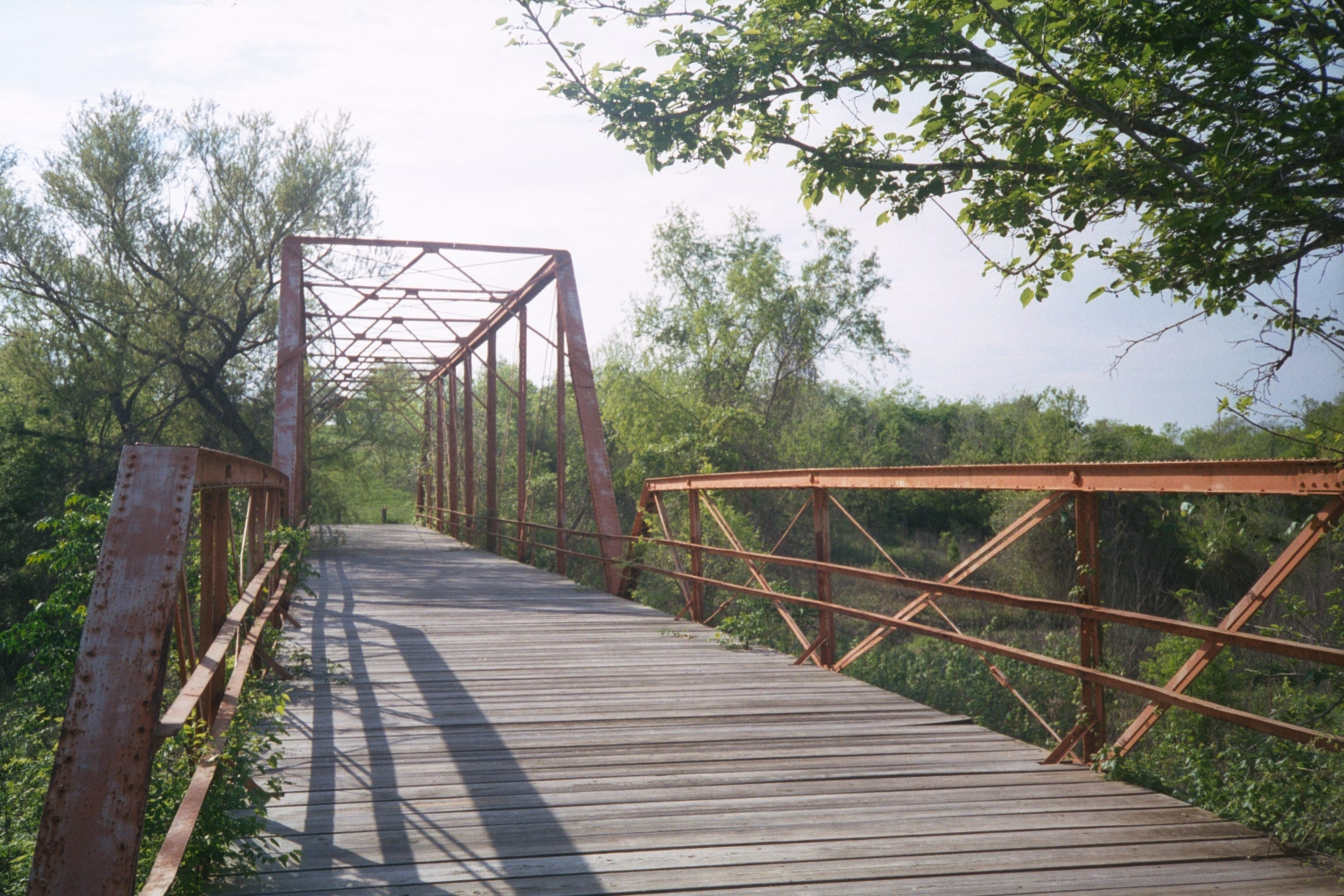 One of several old iron truss bridges relocated to the hiking and nature trails around Granger Lake in Central Texas. Photograph 2000 by Kenneth E. Harker of Austin, Texas.